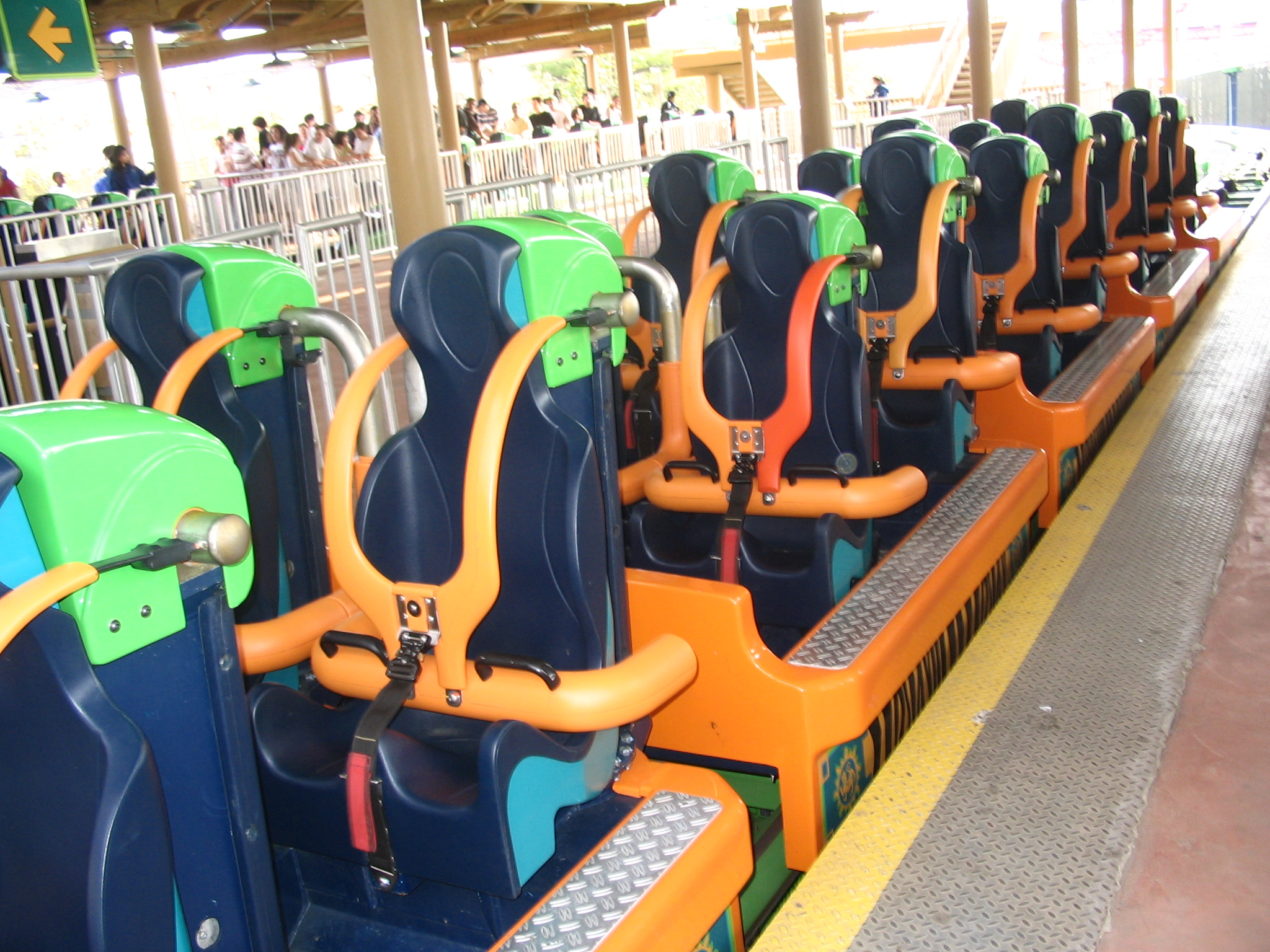 One of Kingda Ka's trains